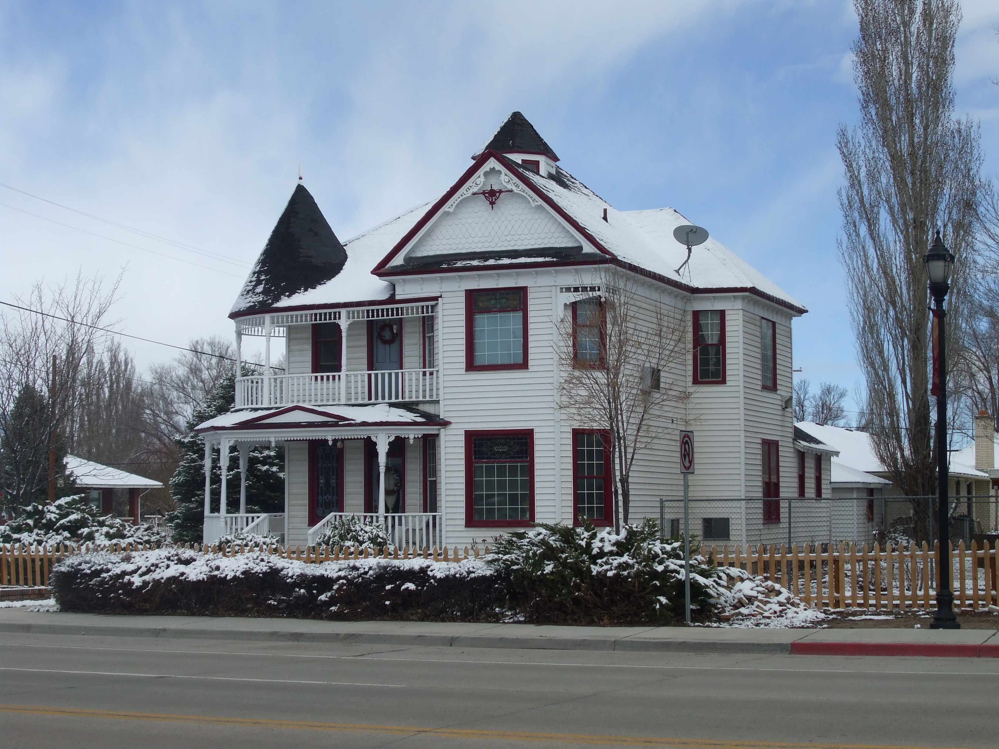 The Peterson-Burr House, a historic home in Salina, Utah, United States.